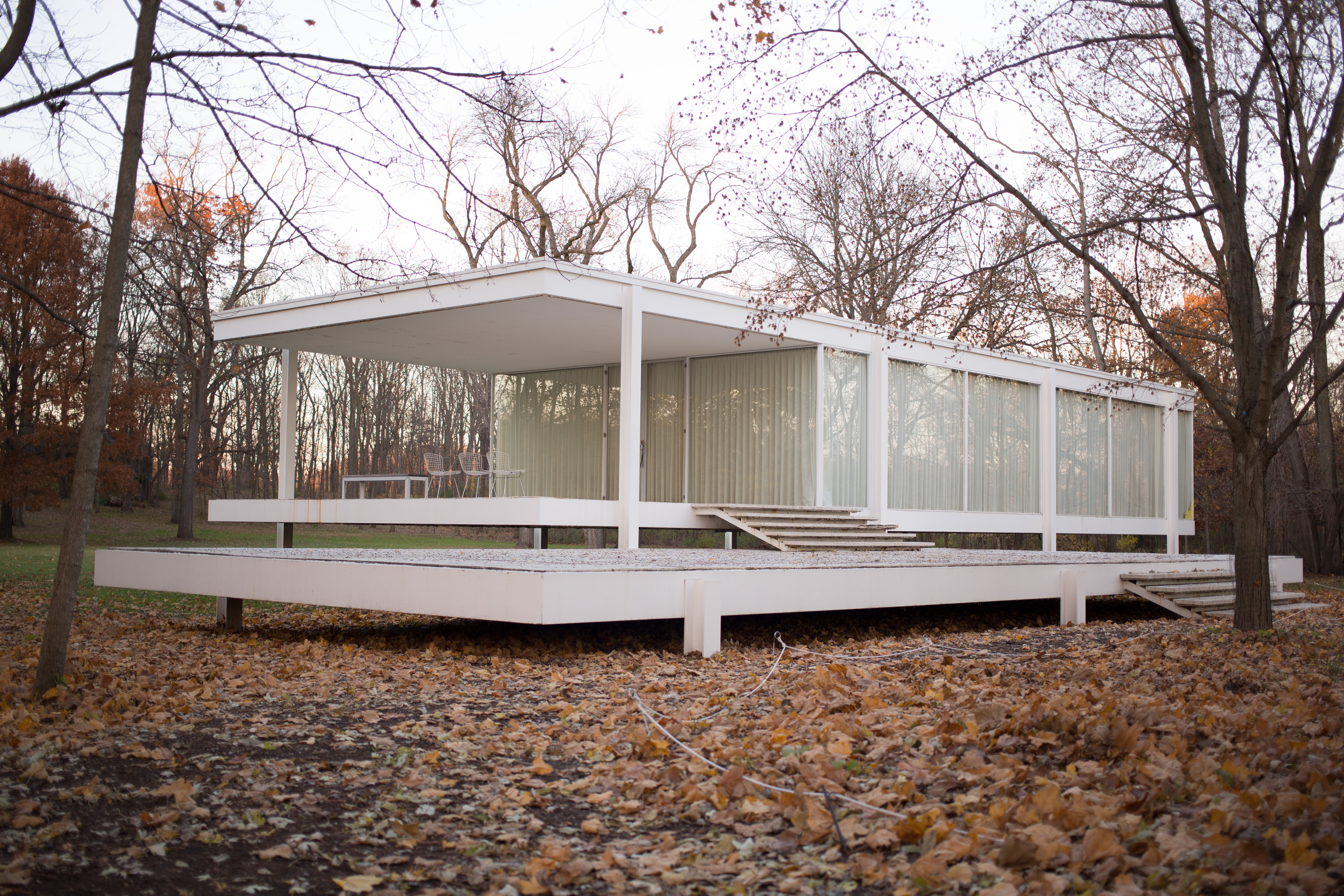 Farnsworth House by Mies Van Der Rohe